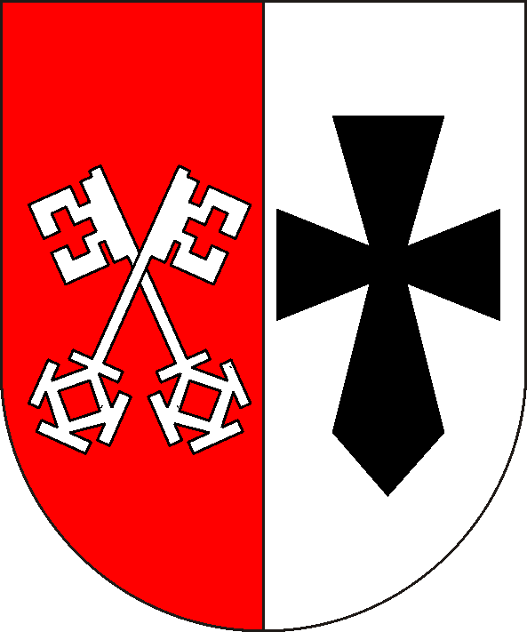 coat of arms of the Duchy of Bremen and the Principality of Verden, ruled in personal union, thus colloquially called the Duchies of Bremen and Verden, or simply Bremen-Verden